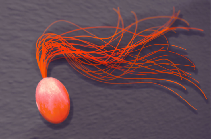 Painting simulating a SEM picture of Pyrococcus furiosus